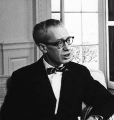 President John F. Kennedy (in rocking chair) meets with the United States Ambassador to the Dominican Republic, John B. Martin, in the Oval Office, White House, Washington, D.C.